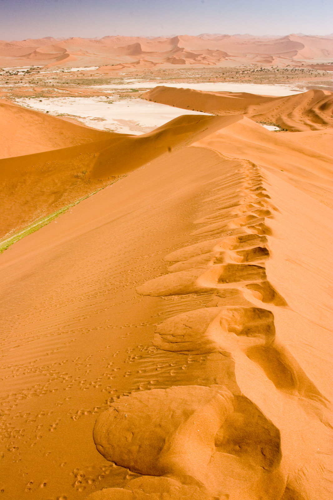 At the top of Big Daddy